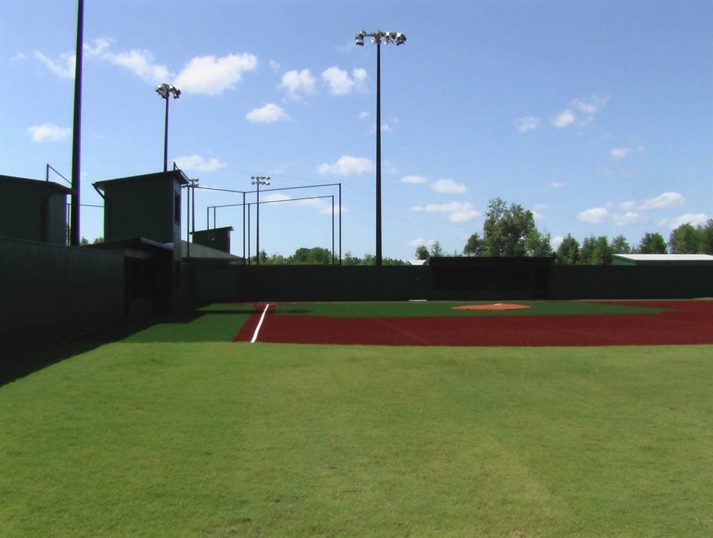 Nations Park, view of field from outfield